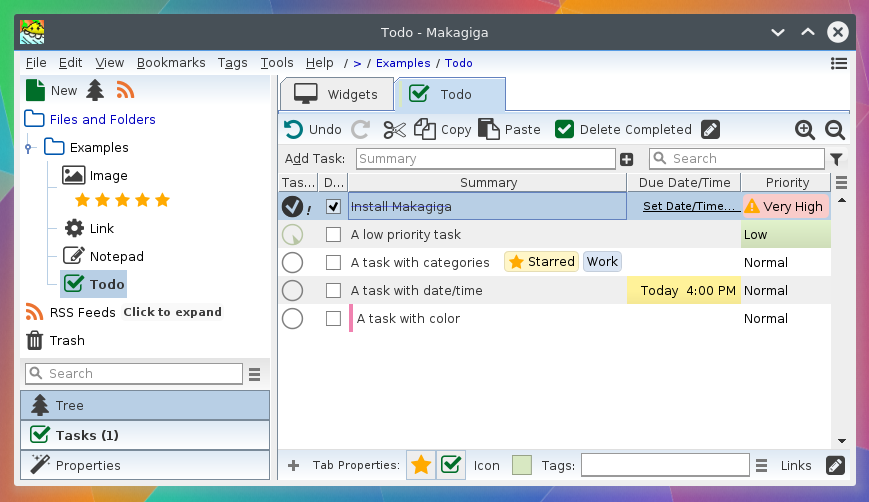 Makagiga To-do List (with Font Awesome icon theme)